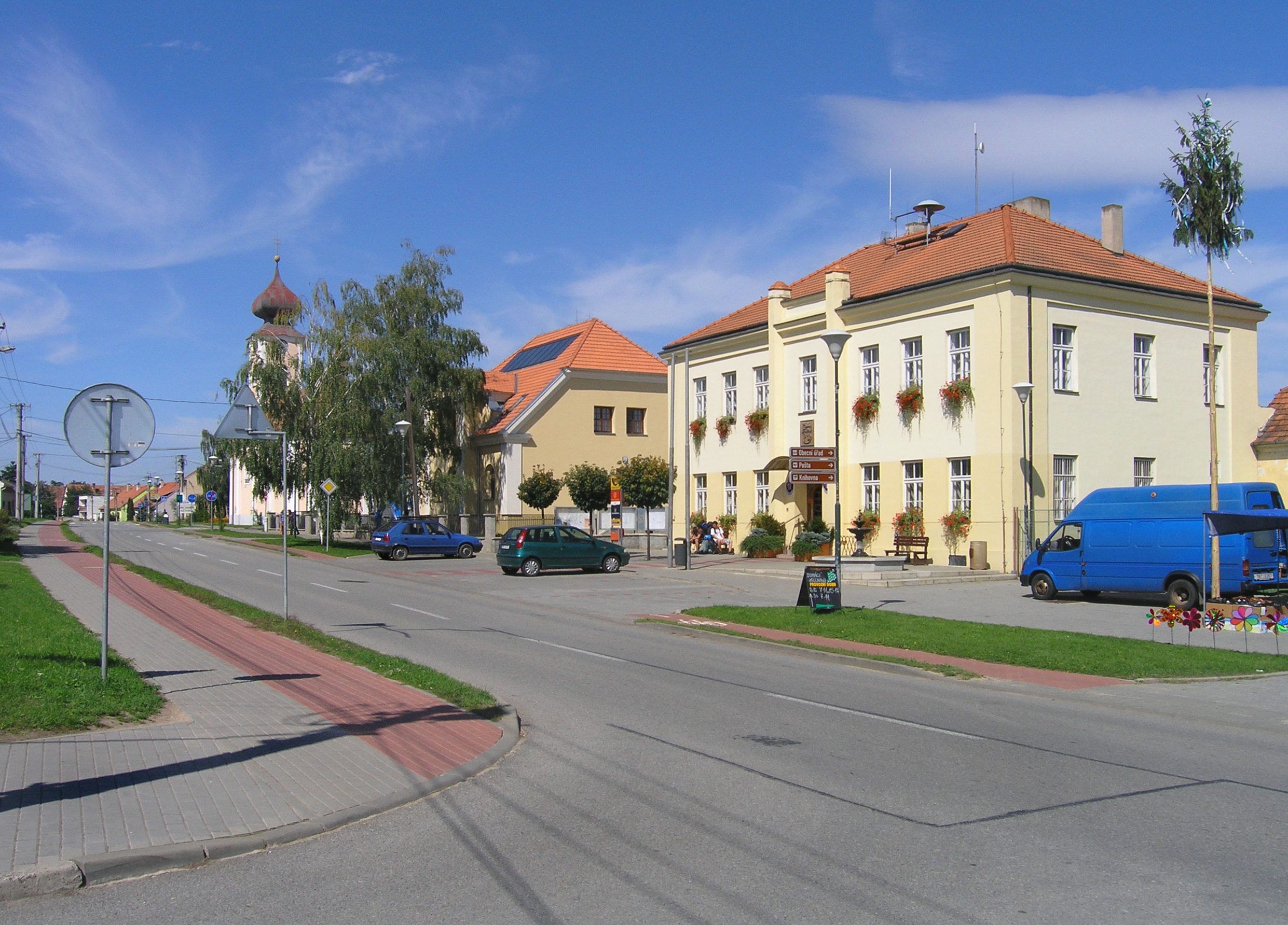 Main street in Pasohlávky village, Czech Republic